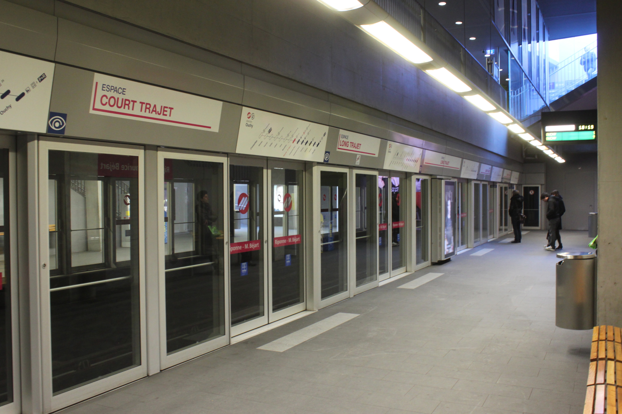 Riponne-Maurice Béjard m2 station.